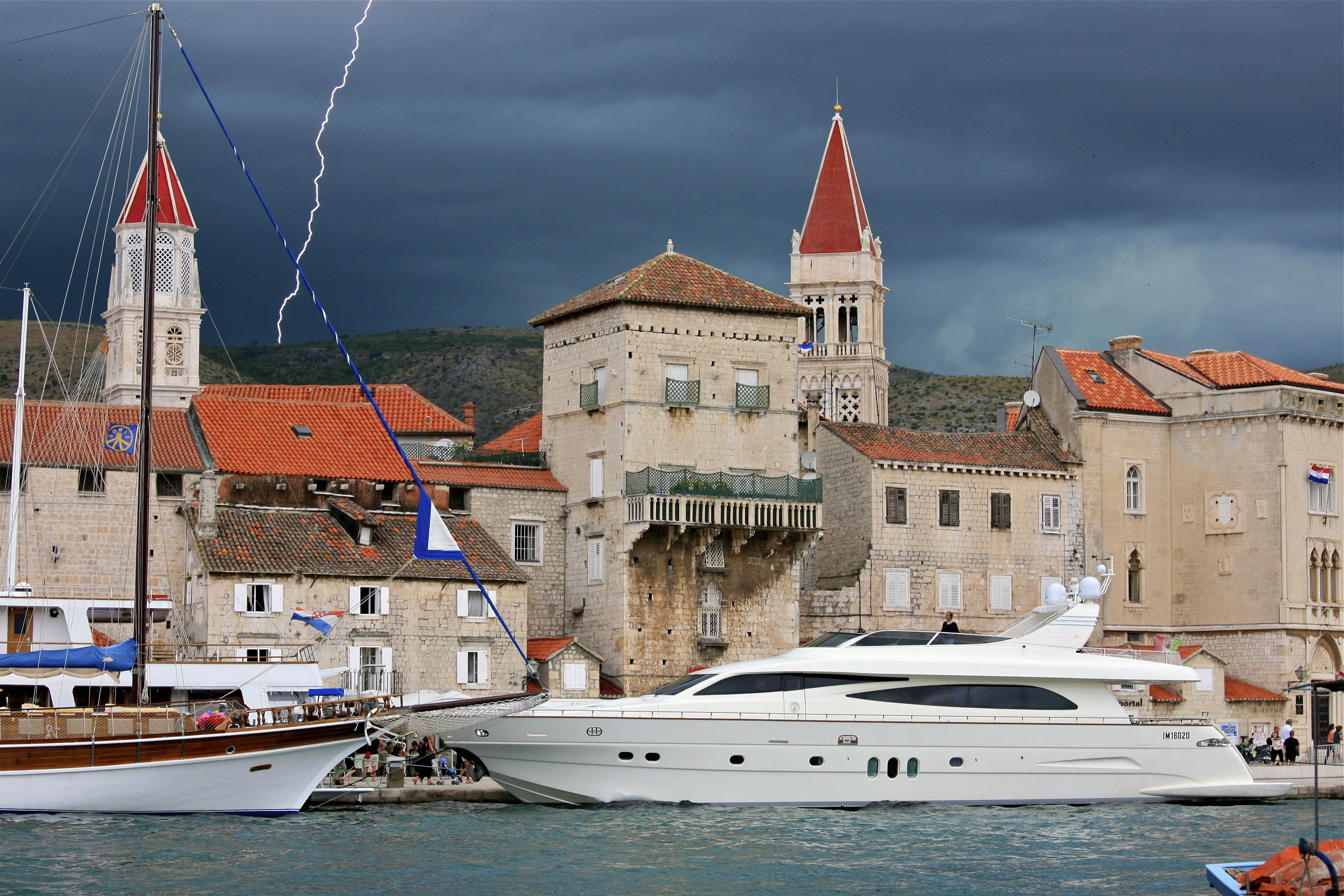 Lightning Strikes the Hill, Trogir